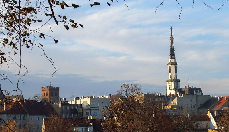 general view with the Leaning Tower